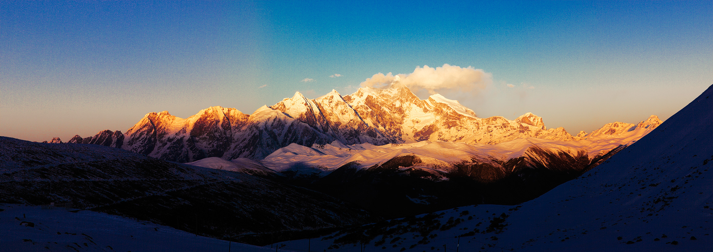 Namcha Barwa in Sejila Moutain. 中文（中国大陆）: 于色季拉山上拍摄的南迦巴瓦山脉。